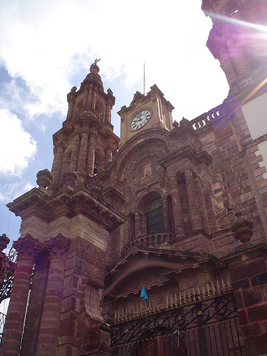 Santuario Guadalupano, catedral de zamora, michoacan